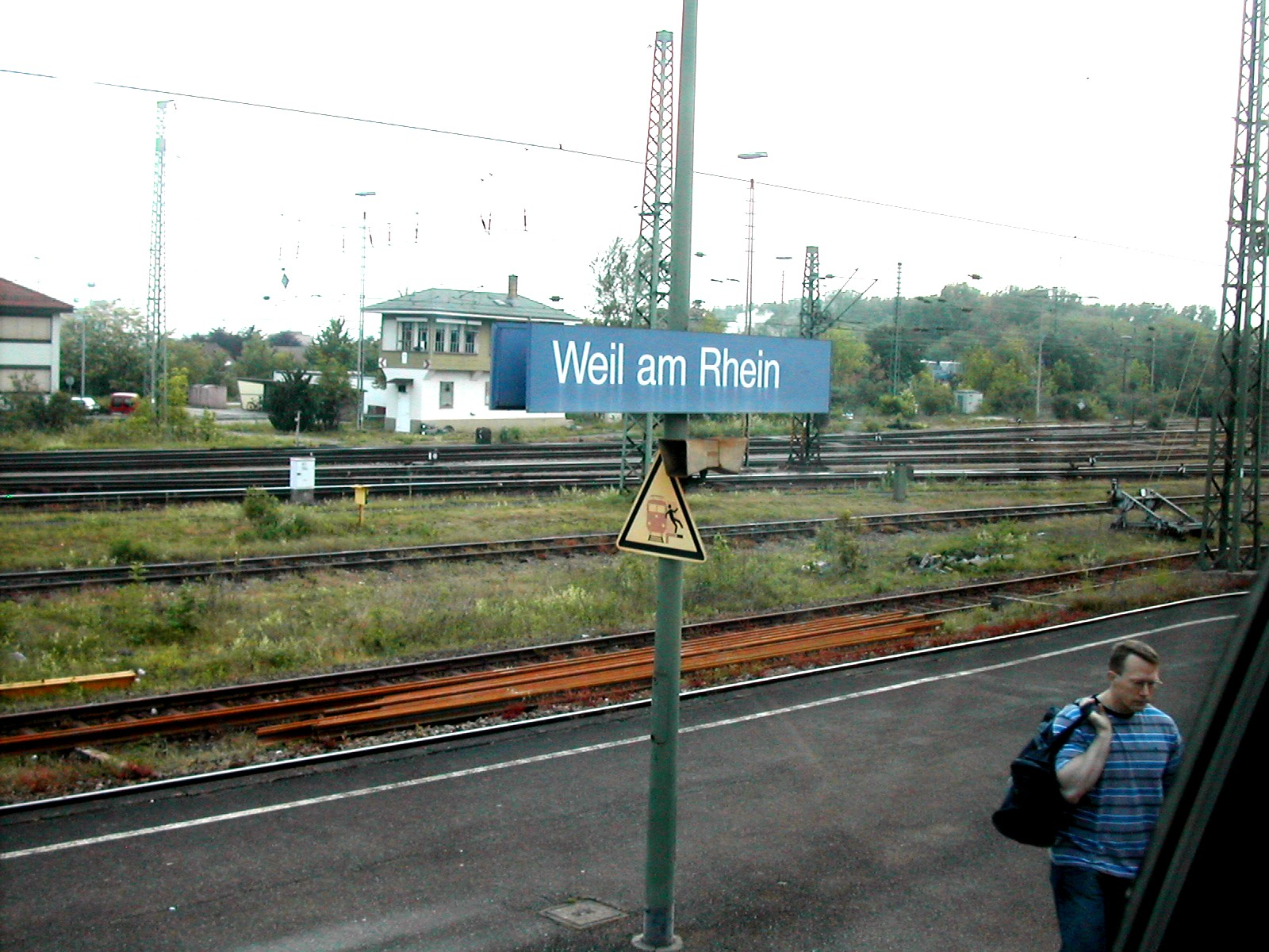 Weil am Rhein train station.